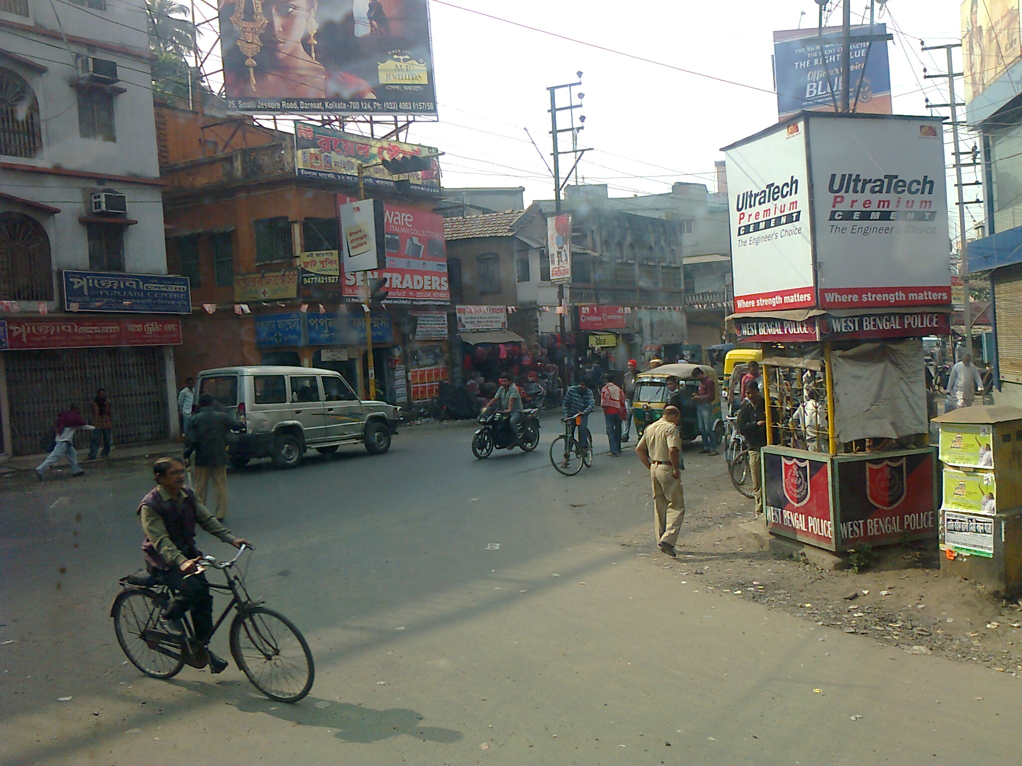 Barasat Chapadali More